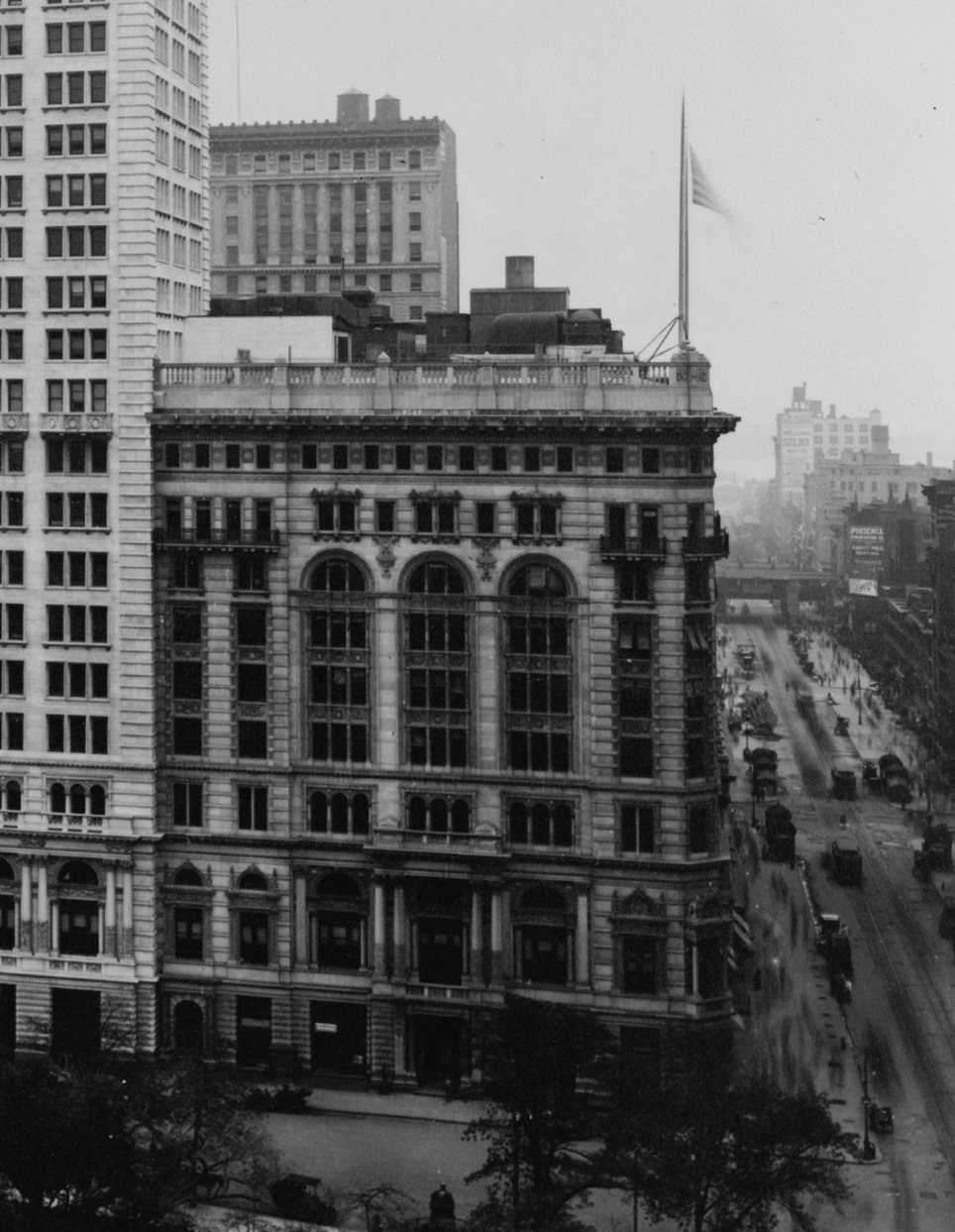 Metropolitan Life Bldg., Manhattan, New York City, in 1911.